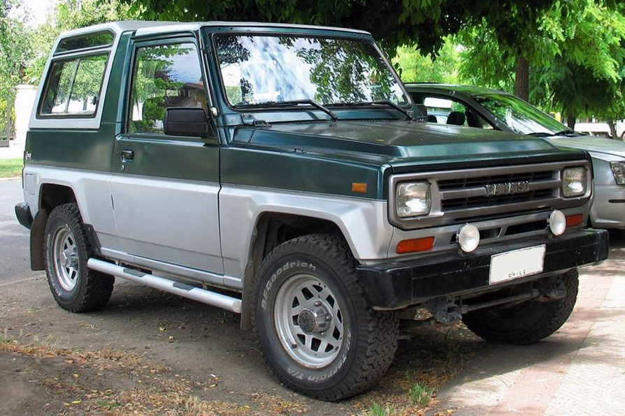 1989 Daihatsu Rocky 2.0 DX Wagon (F70) in Chile